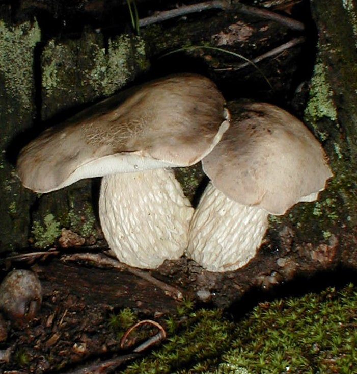 Fruit bodies of the bolete fungus Pseudoaustroboletus valens. Photographed in Greensfelder Park, Eureka, Missouri, USA.